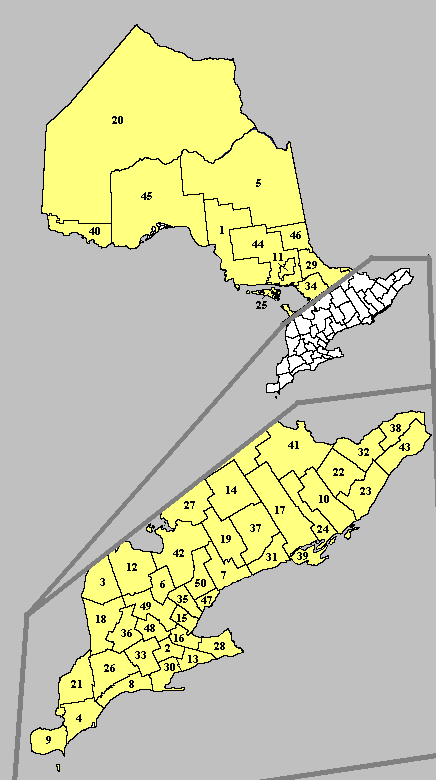 Census divisions of Ontario